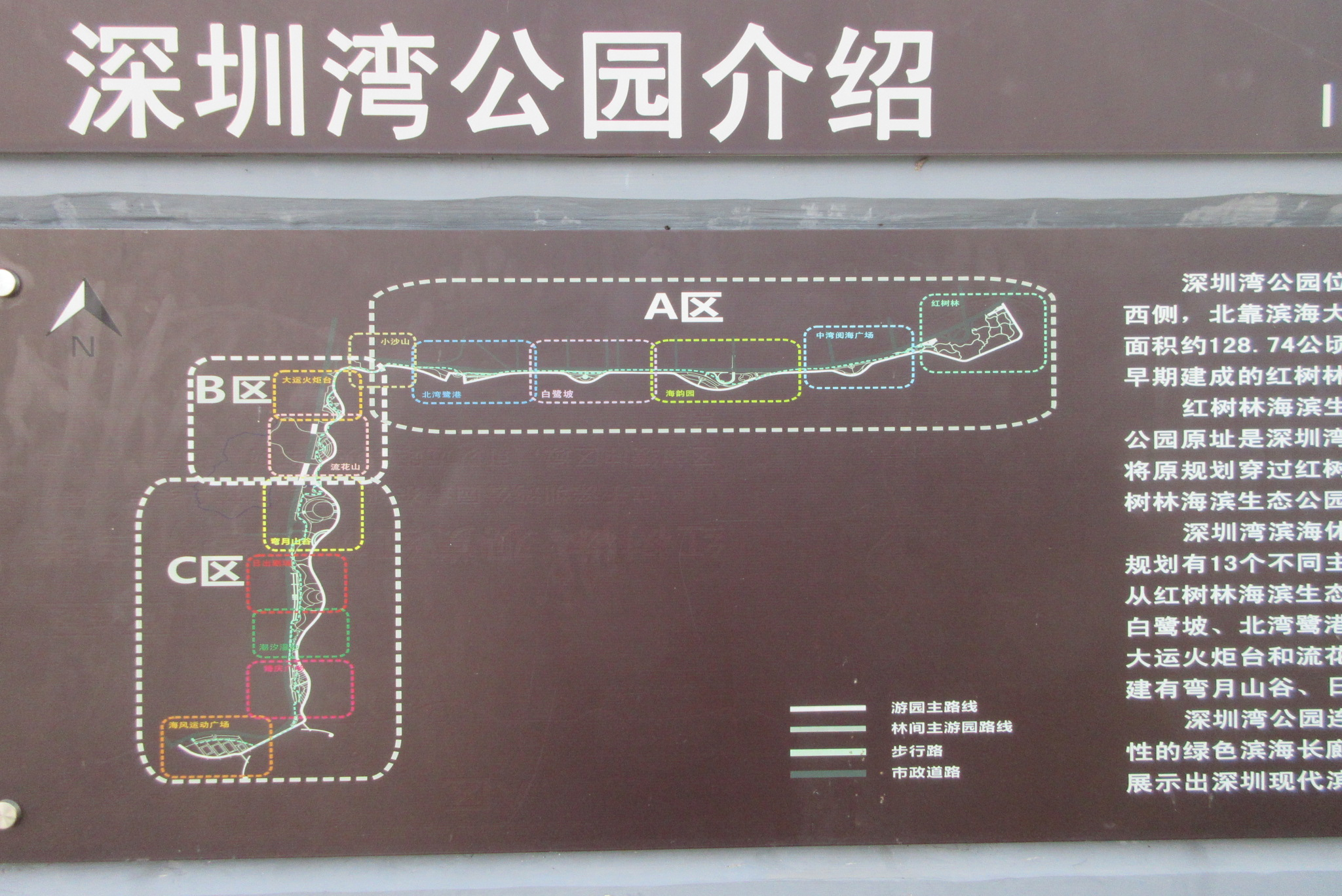 SZ zh-yue:深圳灣公園 Shenzhen Bay Park carpar at 望海路 Wanghai Road in June 2017